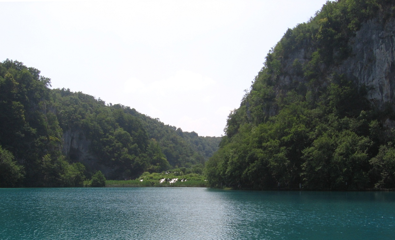 Plitvice Lakes National Park July 2006